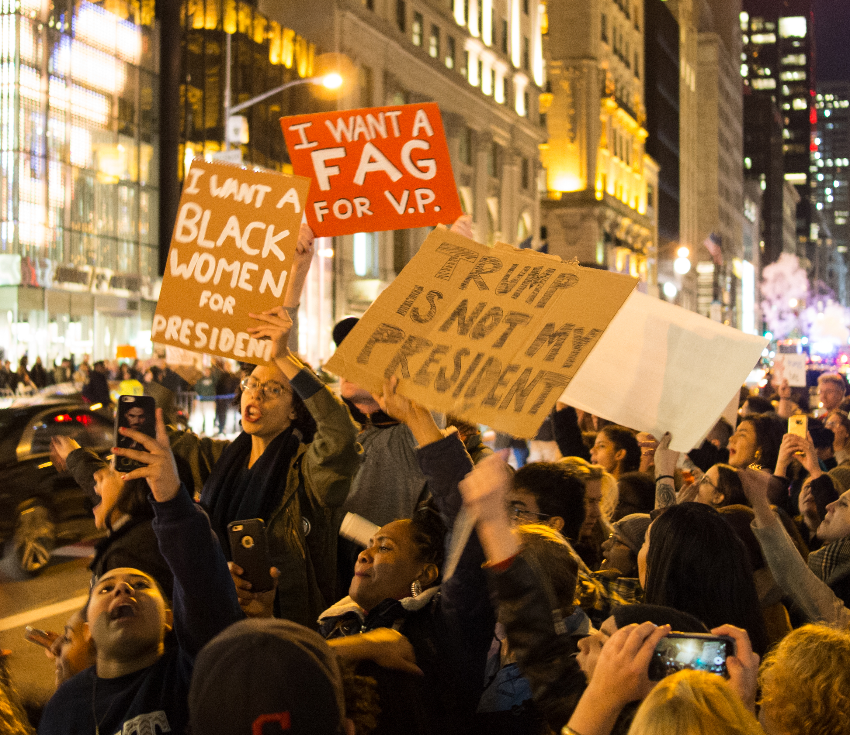 Protest against the election of Donald Trump on November 10, 2016, in front of Trump Tower on 5th Avenue in Manhattan.